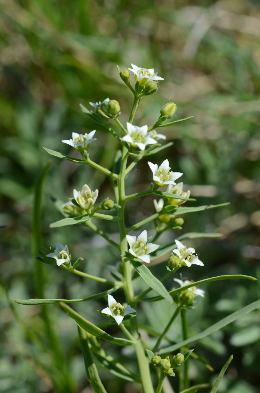 Thesium linophyllon